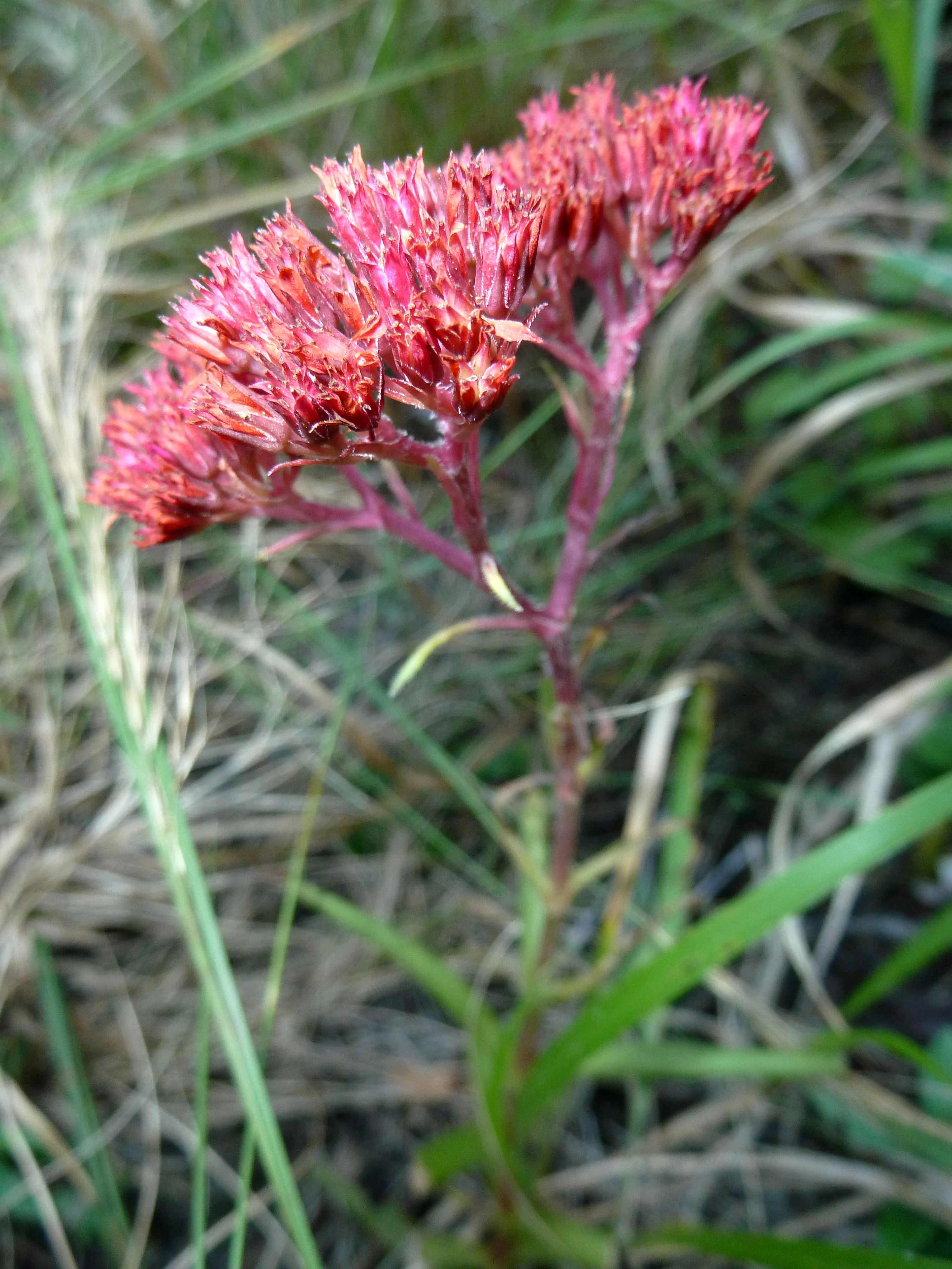 Crassula alba in the grassland of Krantzkloof Nature Reserve, KwaZulu-Natal